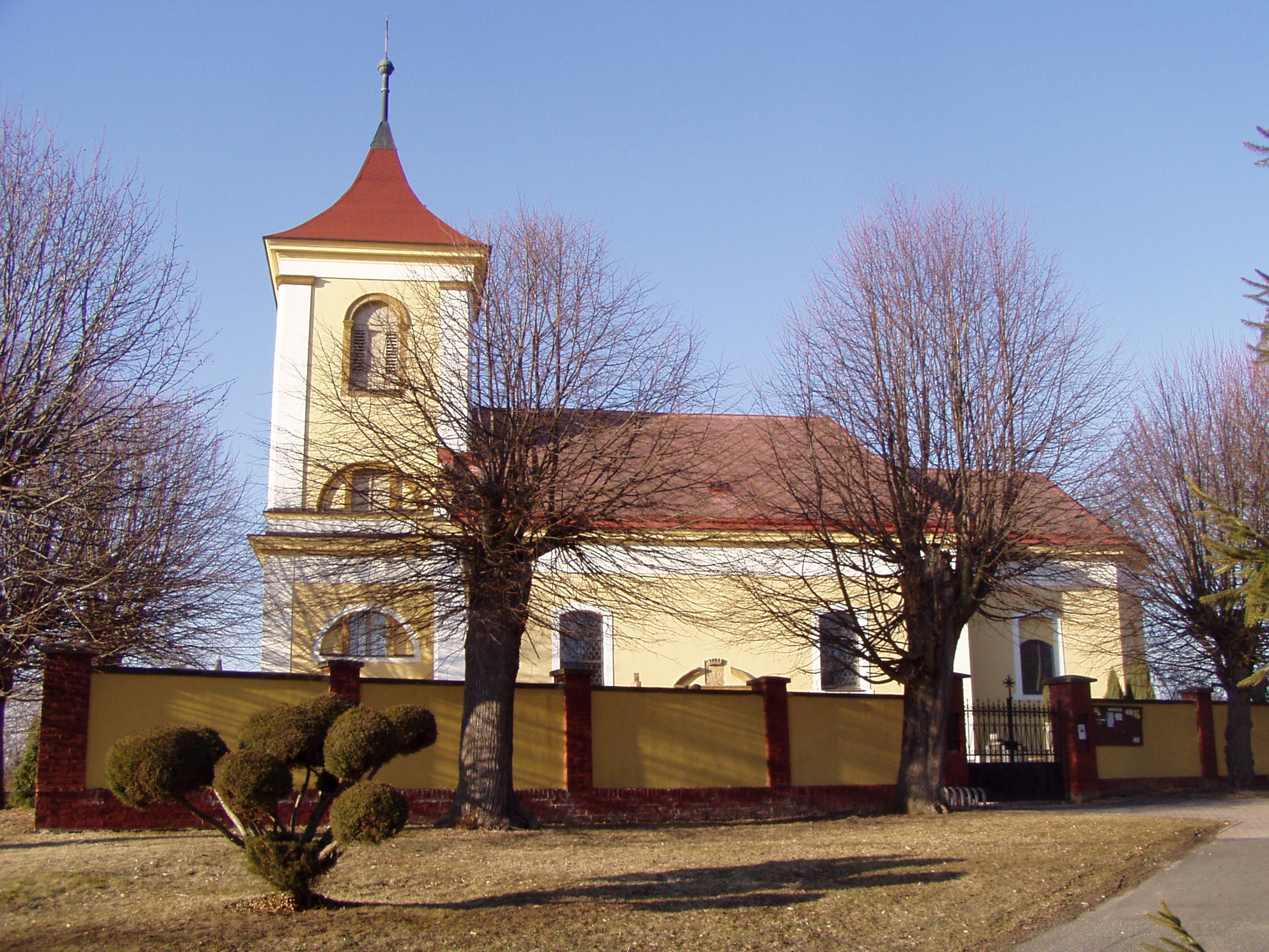 Zvole - Church of St. Justus